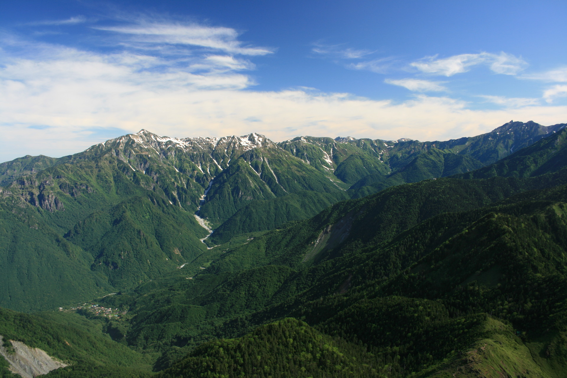 Mount Kasa and Mount Yari seen from Mount Yake